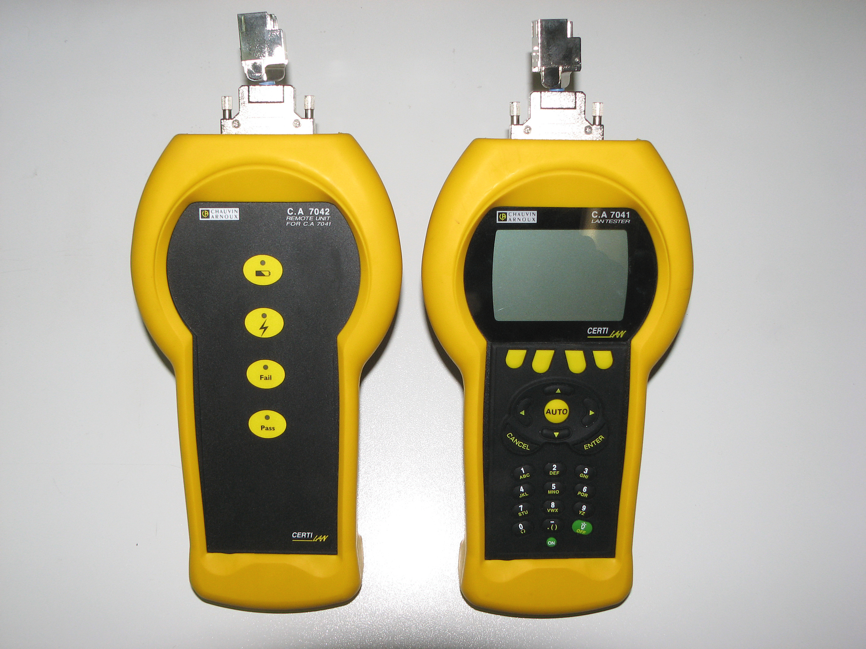 A network cable tester and analyzer.